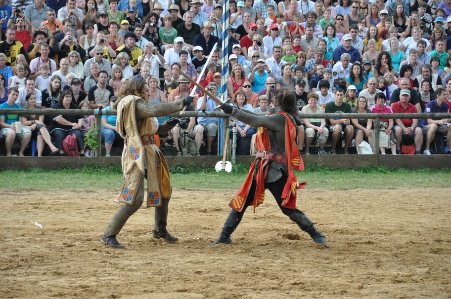 King Arthur ist fighting versus Lancelot. Showfight at the Kaltenberg mediaeval festival 2010.